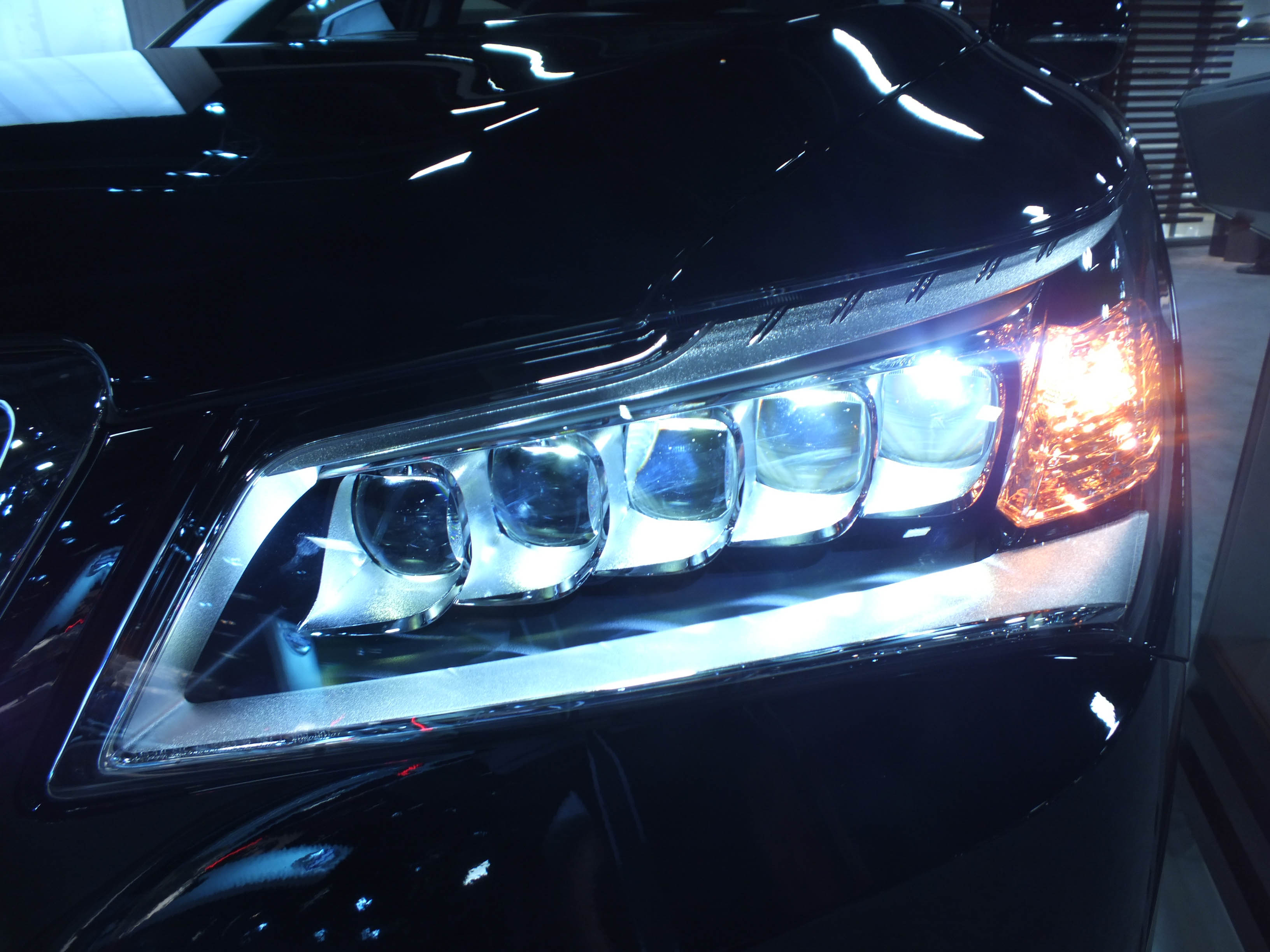 The "jewel eye" LED headlight assembly found on the 2014 Acura RLX. (United States)